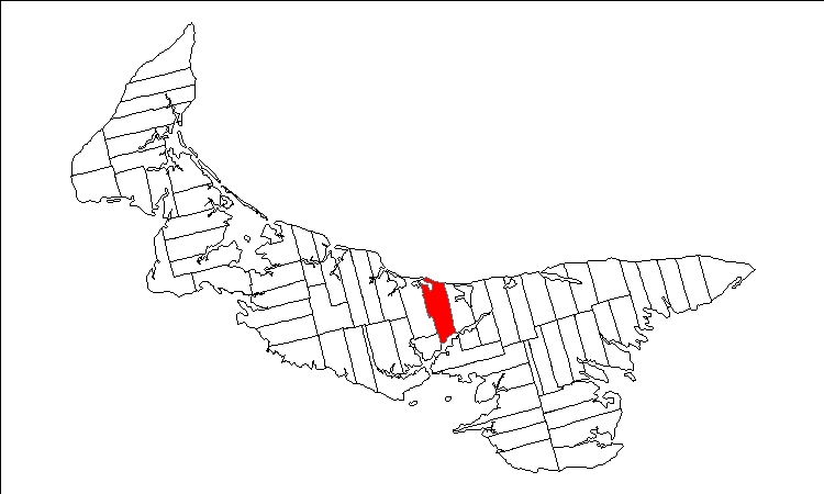 Public domain map of Prince Edward Island created by User:Plasma east with data courtesy of Geogratis, modified to show townships. Released under GFDL (self).